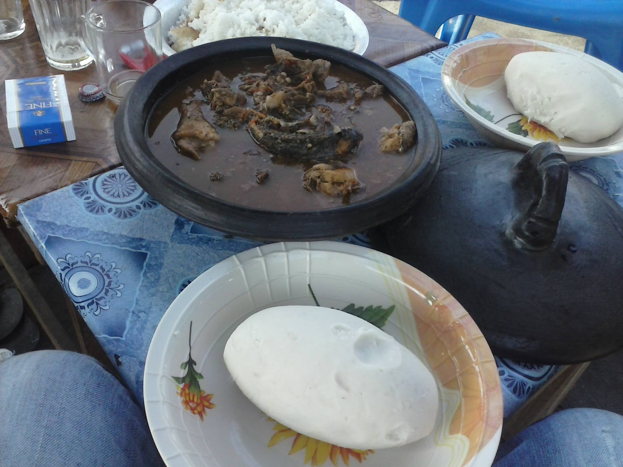 This is an image of food from Côte d'Ivoire